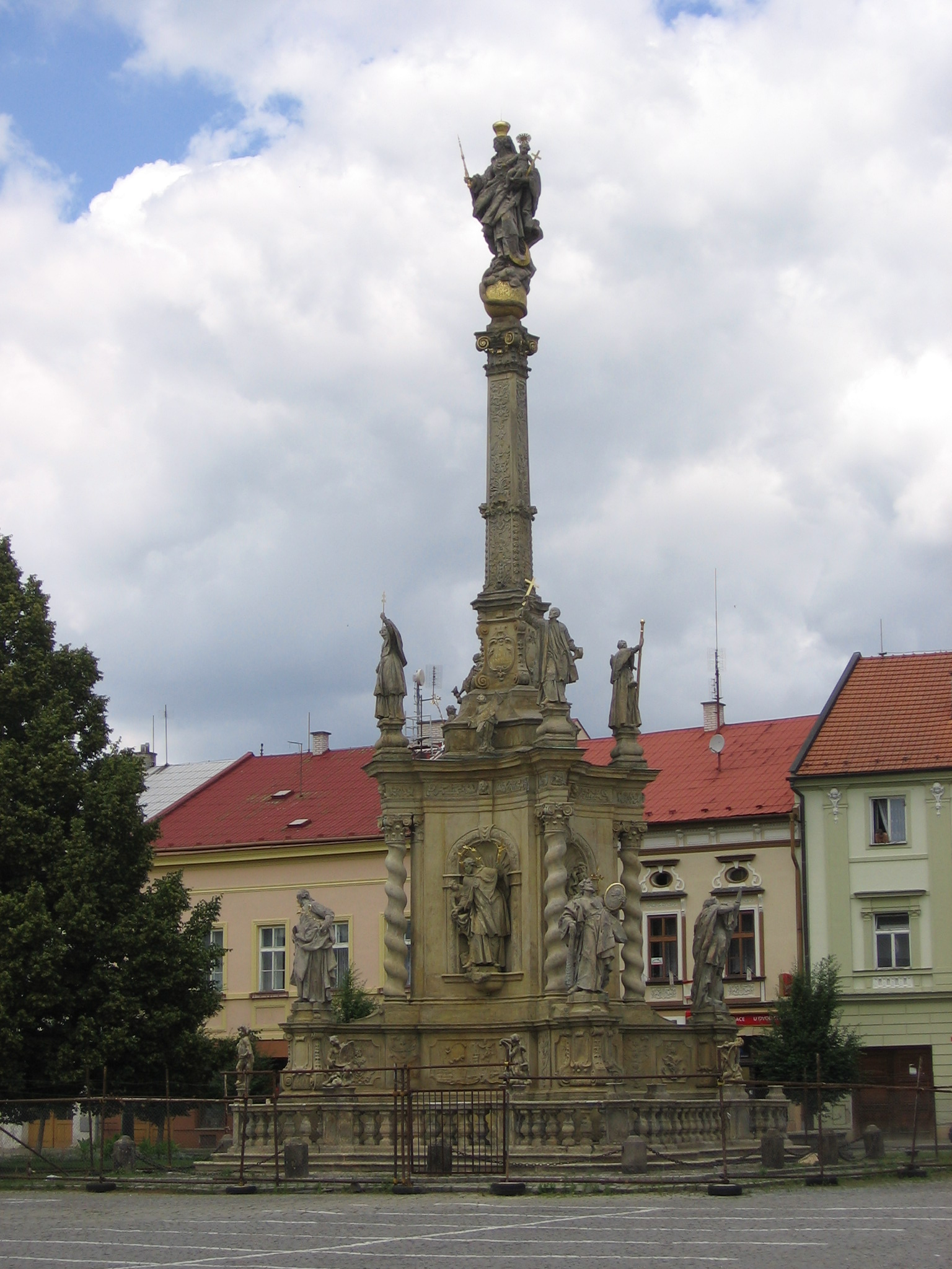 Maria Column in Uničov (Czech Republic)